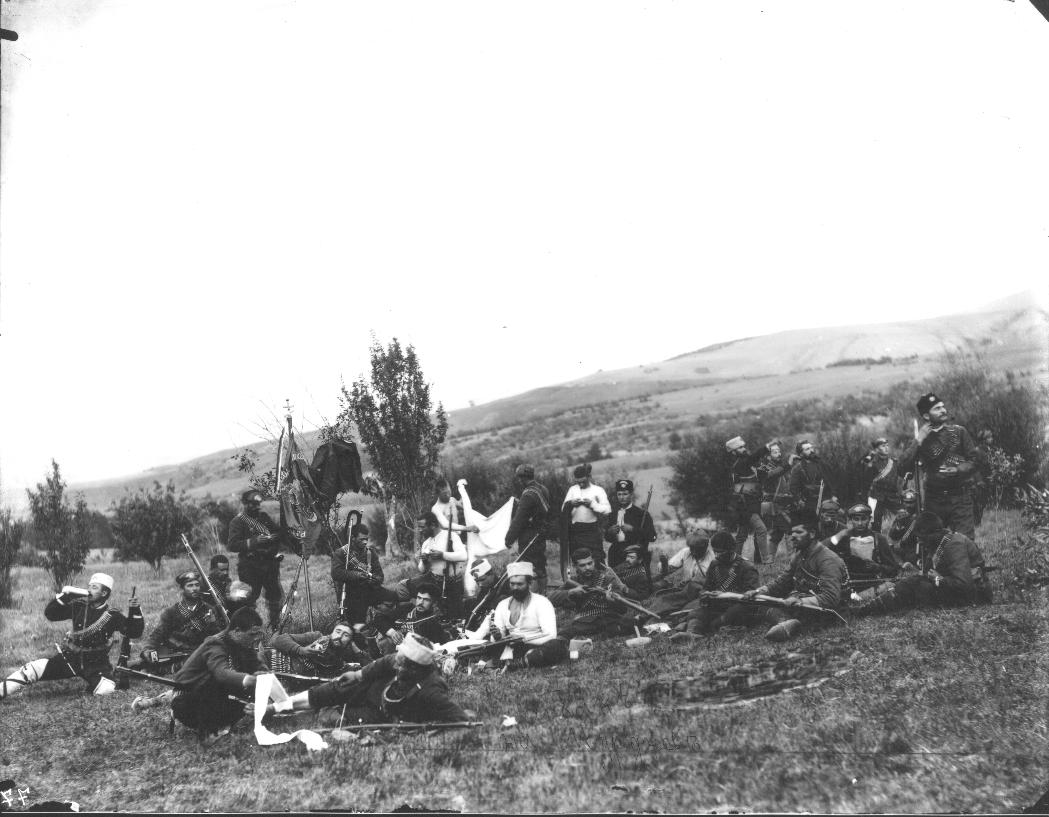 Cheta of IMARO Member Atanas Murdjiev